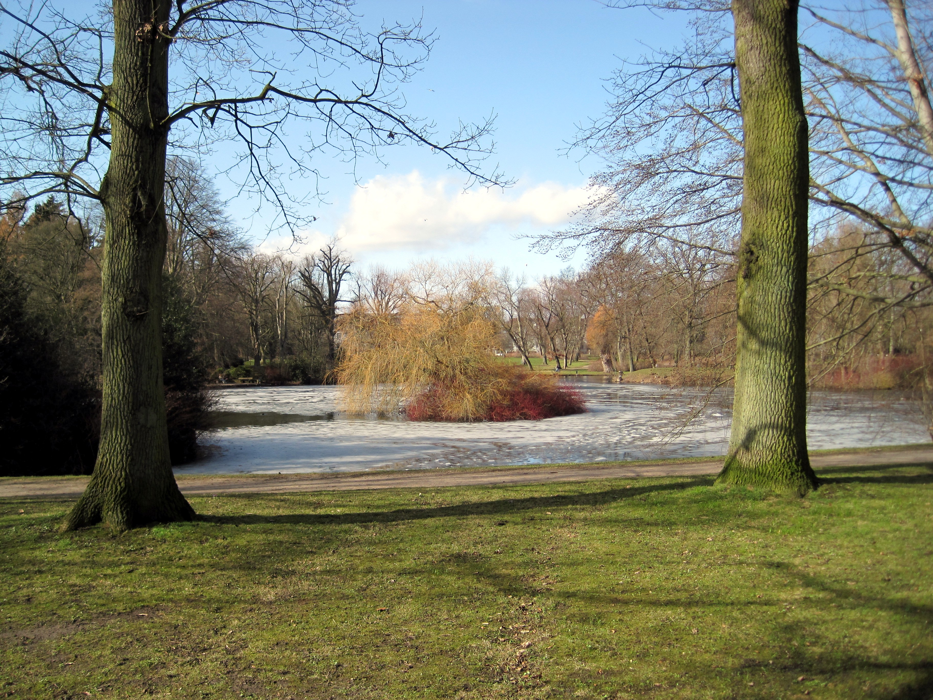 Frozen Pond with island in Lübecks municipal parc in early spring 2010.